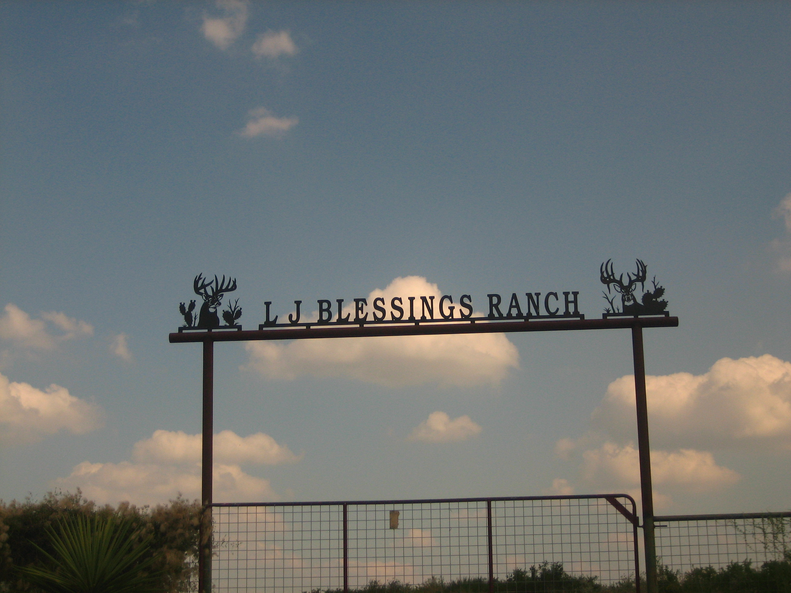 I took photo on July 30, 2008.Billy Hathorn (talk) 00:29, 8 September 2008 (UTC)